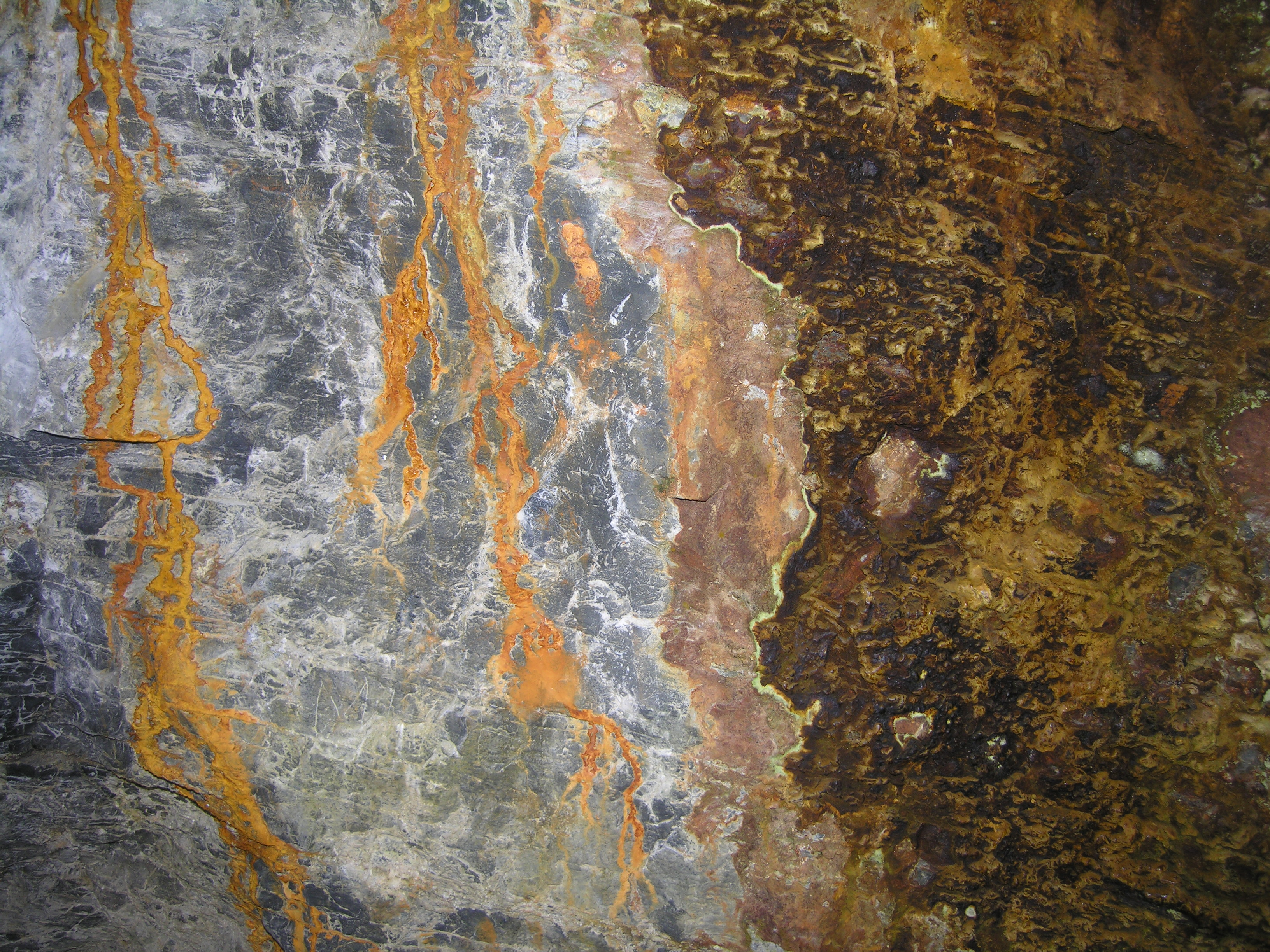 Iron impregnations in the limestone